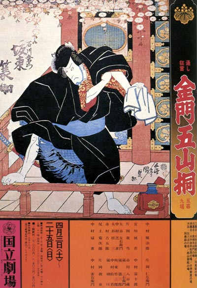 Sanmon (print) by unknown artist (National Theatre)